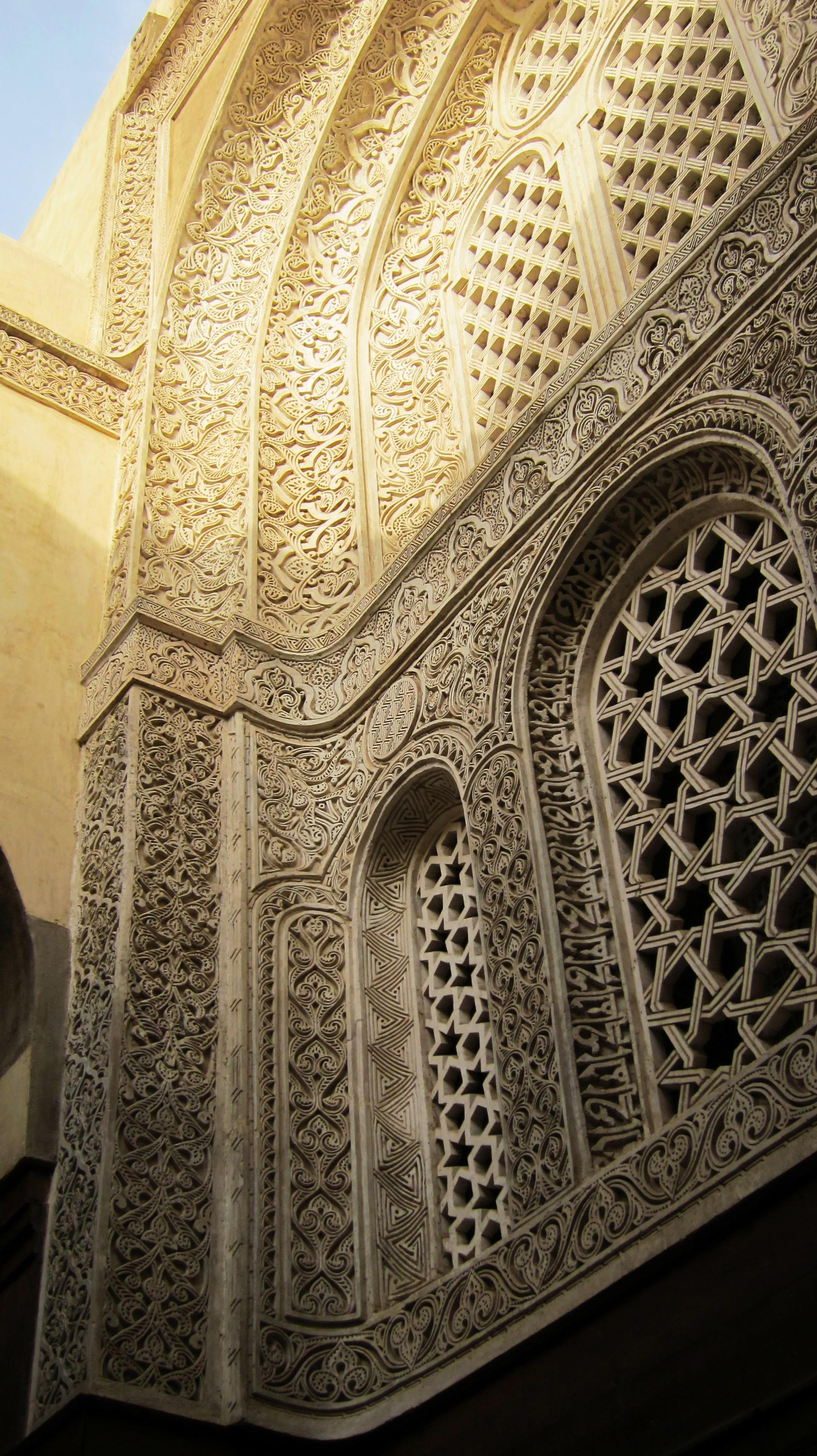 The complex of Sultan Qalawun was built for the sultan by Amir 'Alam al-Din Sanjar al-Shuja'i in 1284-5 and consisted of the founder's mausoleum, madrasa, and a maristan (hospital). The complex was located on al-Mu'izz Street. The mausoleum's central, domed plan is connected to the madrasa by a long entrance passage, and the plan of both spaces is shifted to accommodate the qibla orientation. The mausoleum, which is separated from the madrasa by this long corridor, is accessible via a small courtyard surrounded by an arcade with shallow domes. The octagonal structure was roofed by a dome which was destroyed in the 18th century. The current concrete dome, which is a replica of that covering the Mausoleum of al-Ashraf Khalil ibn Qalawun (1288), was built by Max Herz Bey in 1903. The octagonal base is transformed into a circle by means of wooden muqarnas. The elaborate interior decoration includes marble revetment, carved, painted, and gilded wood, carved marble, and stucco. Source